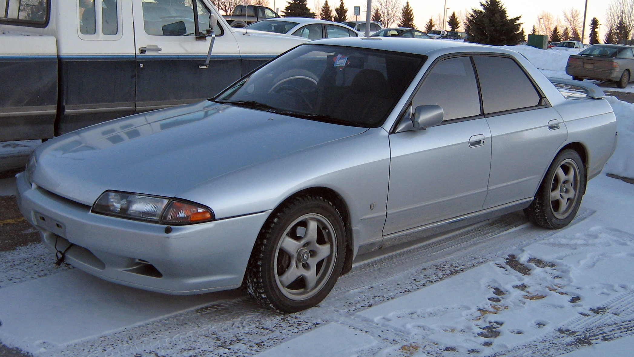 The rarely imported four door version of a Nissan Skyline.